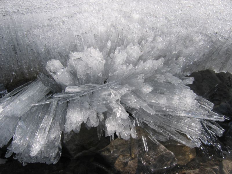 Cristals of ice in the western bank of the Upper Kananaskis lake, Alberta